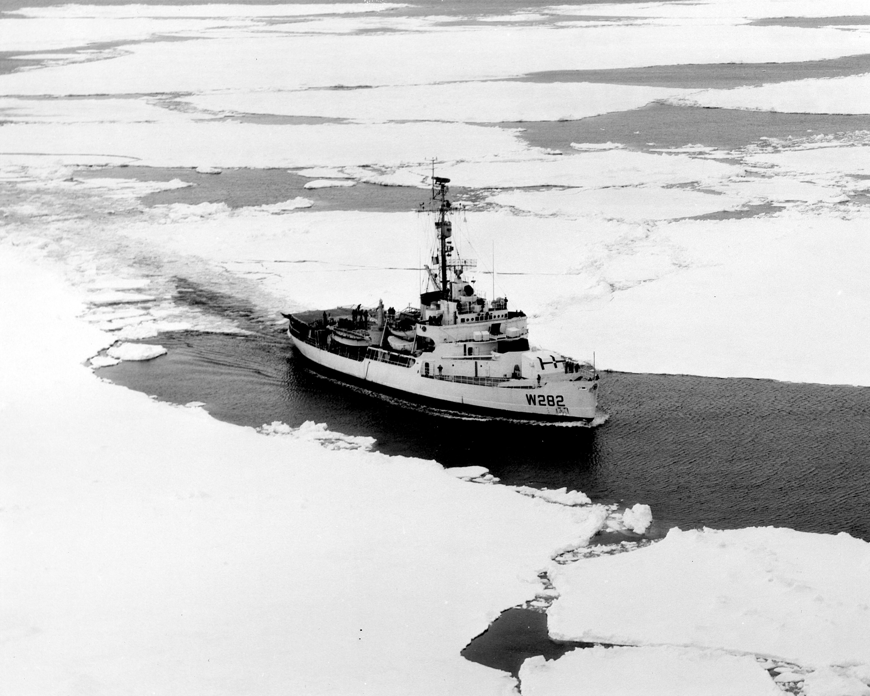 USCGC Northwind during Operation Deep Freeze - 14 December 1956